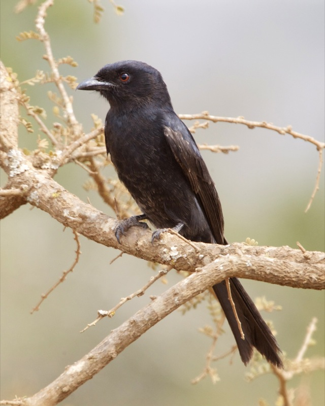 Fork-tailed Drongo Dicrurus adsimilis ssp Dicrurus adsimilis fugax Akagera National Park, Rwanda 15th. August 2009 690V1277